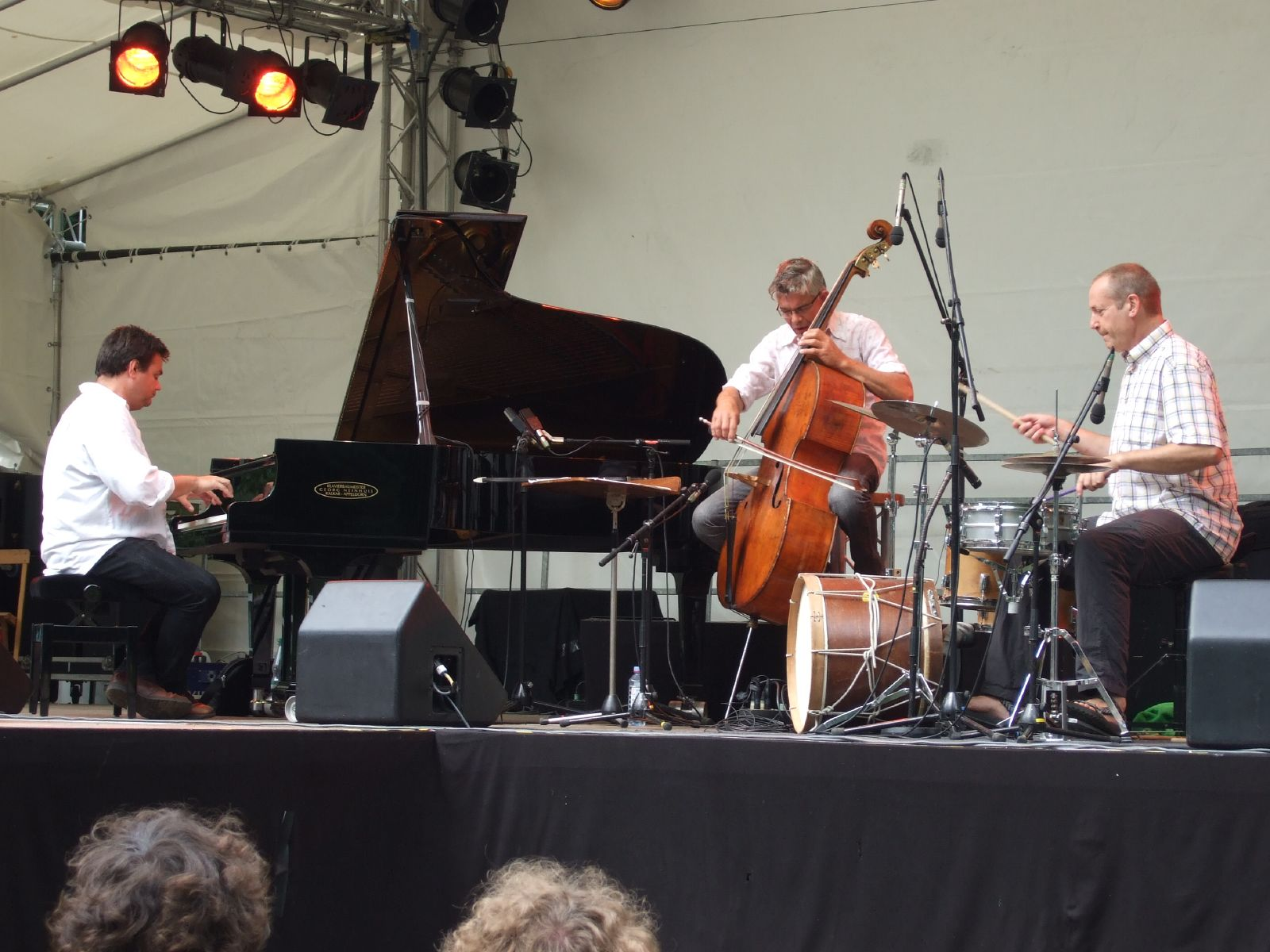 Michiel Braam/Wilbert DeJoode/Michael Vatcher at the festival OffsideOpen Geldern 2007